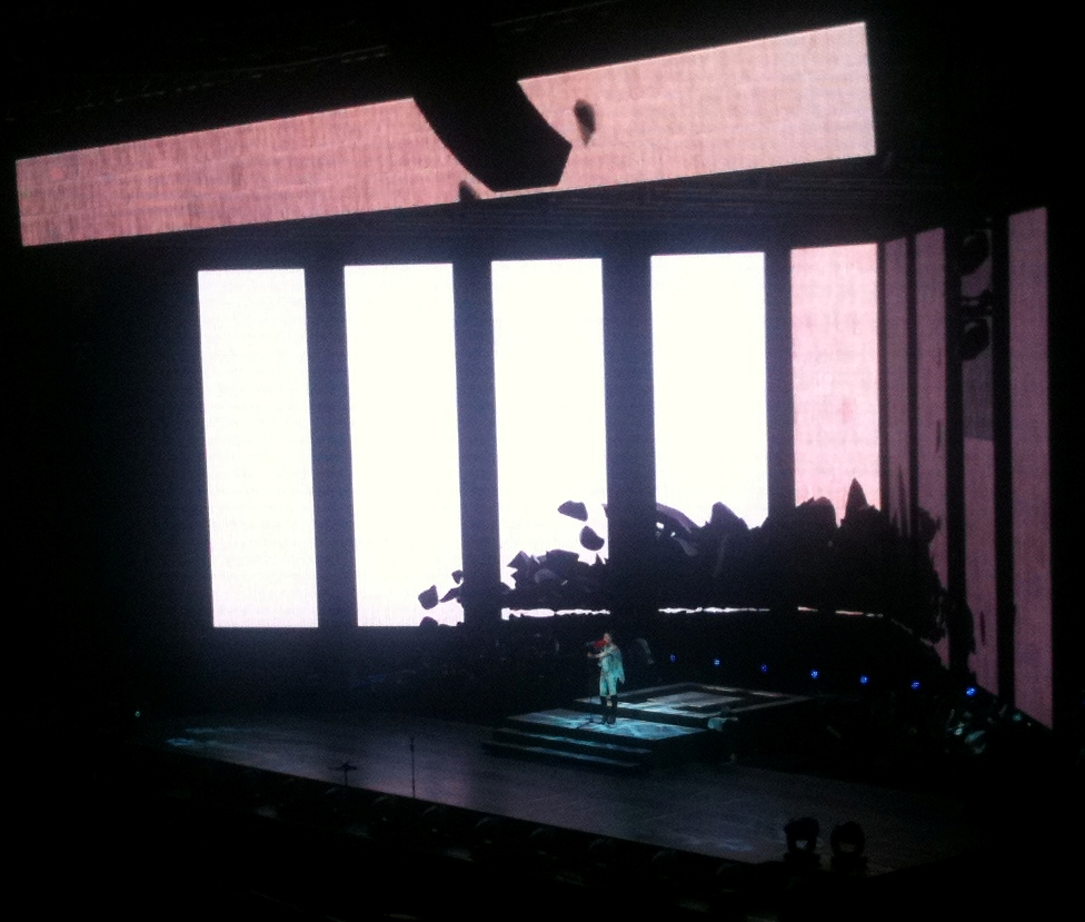 Faye Wong at her Beijing Wukesong concert